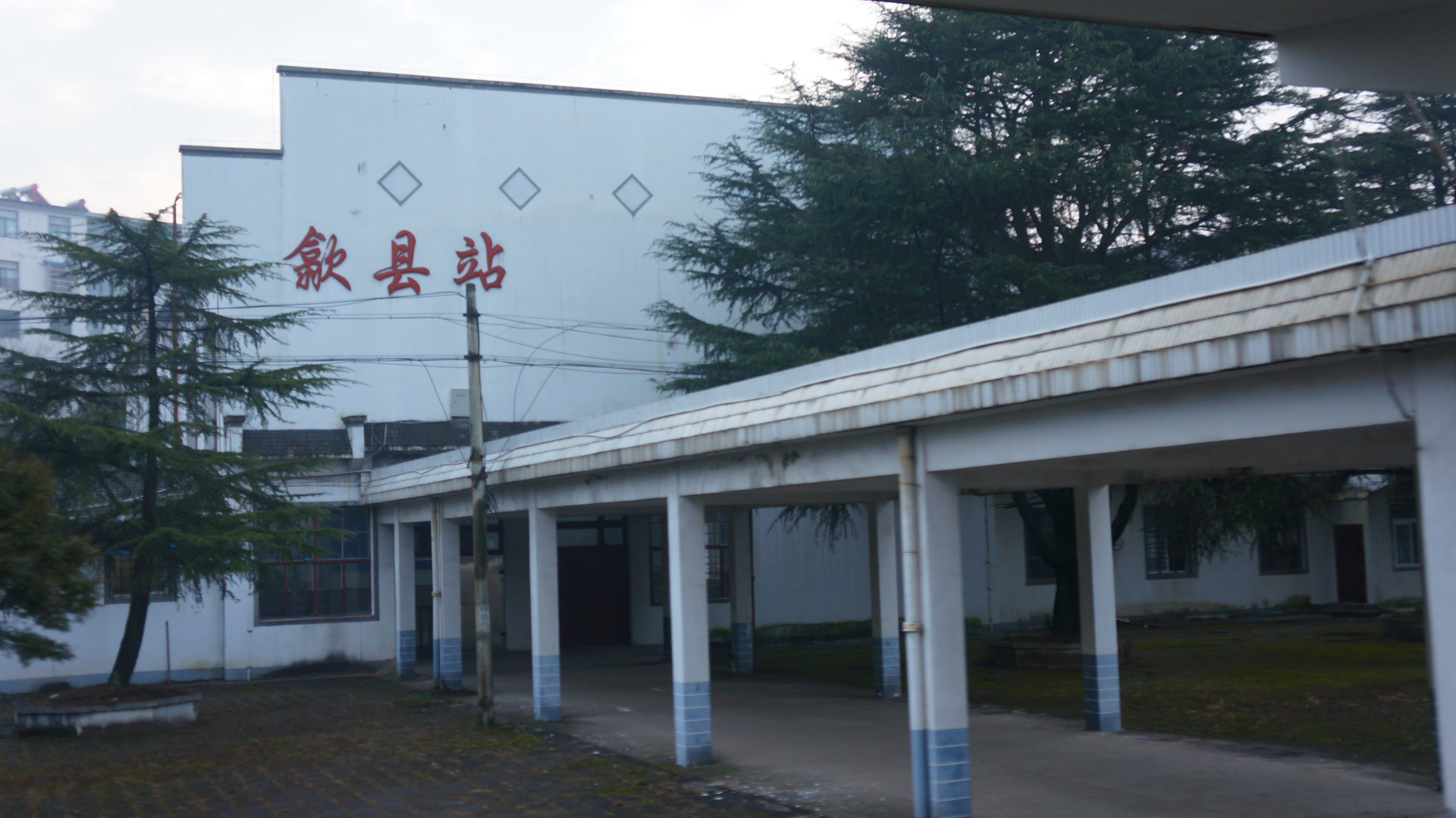 201601 Shexian Railway Station main building